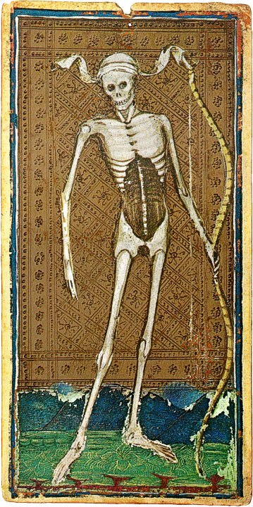 The Death card from the Visconti-Sforza Tarot deck.